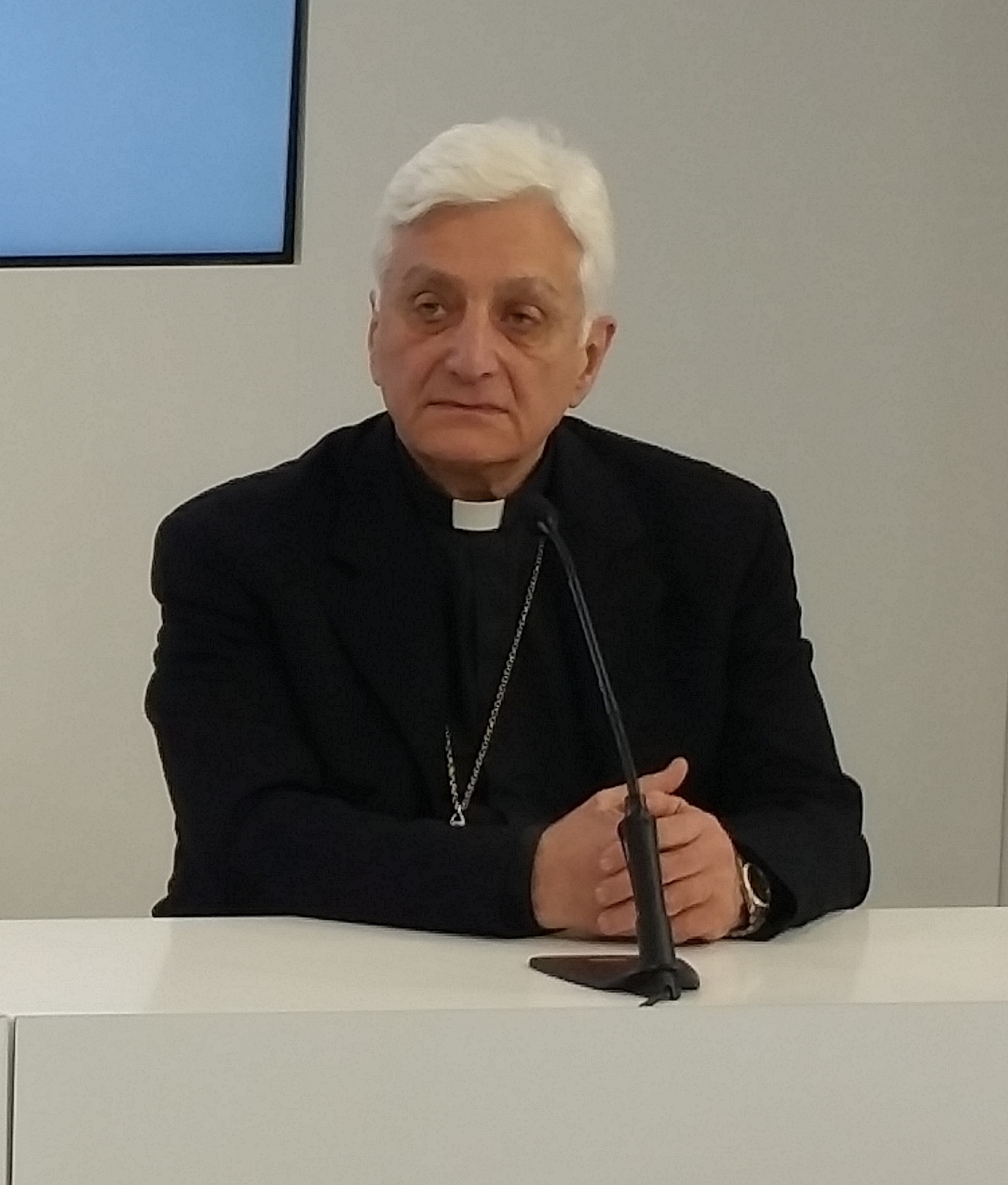 P. Antonio Aurelio presidente de SIT con Mons. Audo